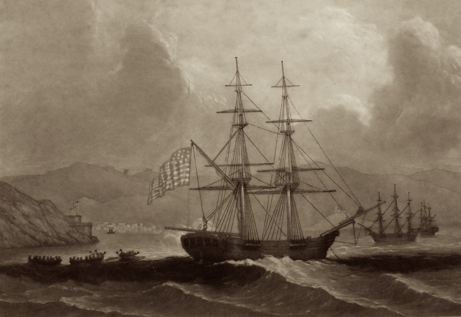 Title:The Flag of the United States, First hoisted at the Island of St. Thomas by Capt. Hugh Montgomery, on the news of the Declaration of Independence, 1776. Drawn and Engraved by J. Sartain. Illustrates the Brigantine Nancy, captained by Hugh Montgomery, flying an American flag at St. Thomas.